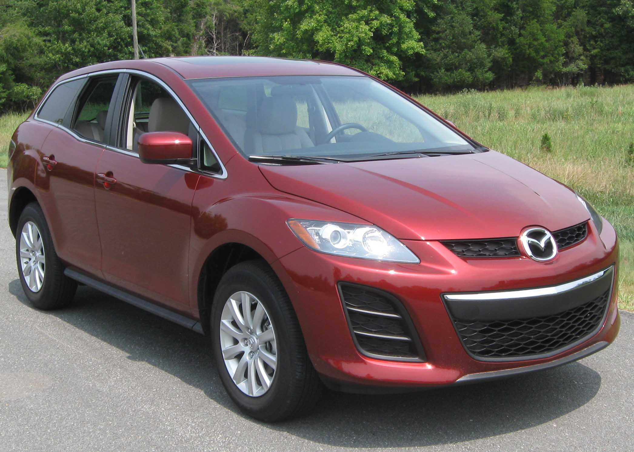 2010 Mazda CX-7 photographed in Manassas, Virginia, USA.